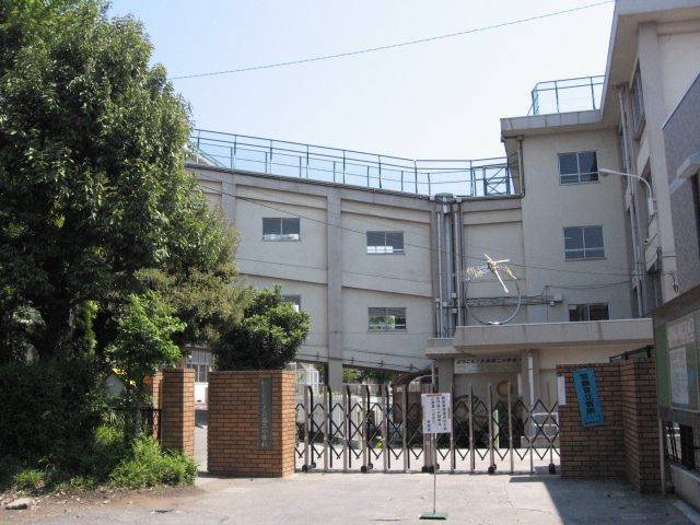 Oizumi second primary school from Nerima, Tokyo.